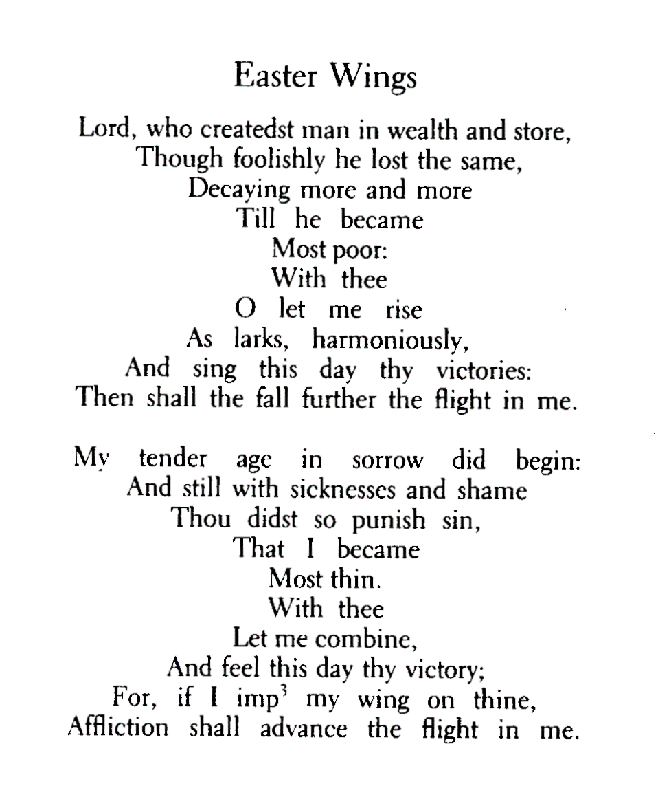 George Herbert's poem "Easter Wings" printed upright in modern type